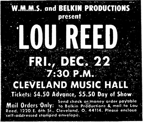 Print ad for Lou Reed concert